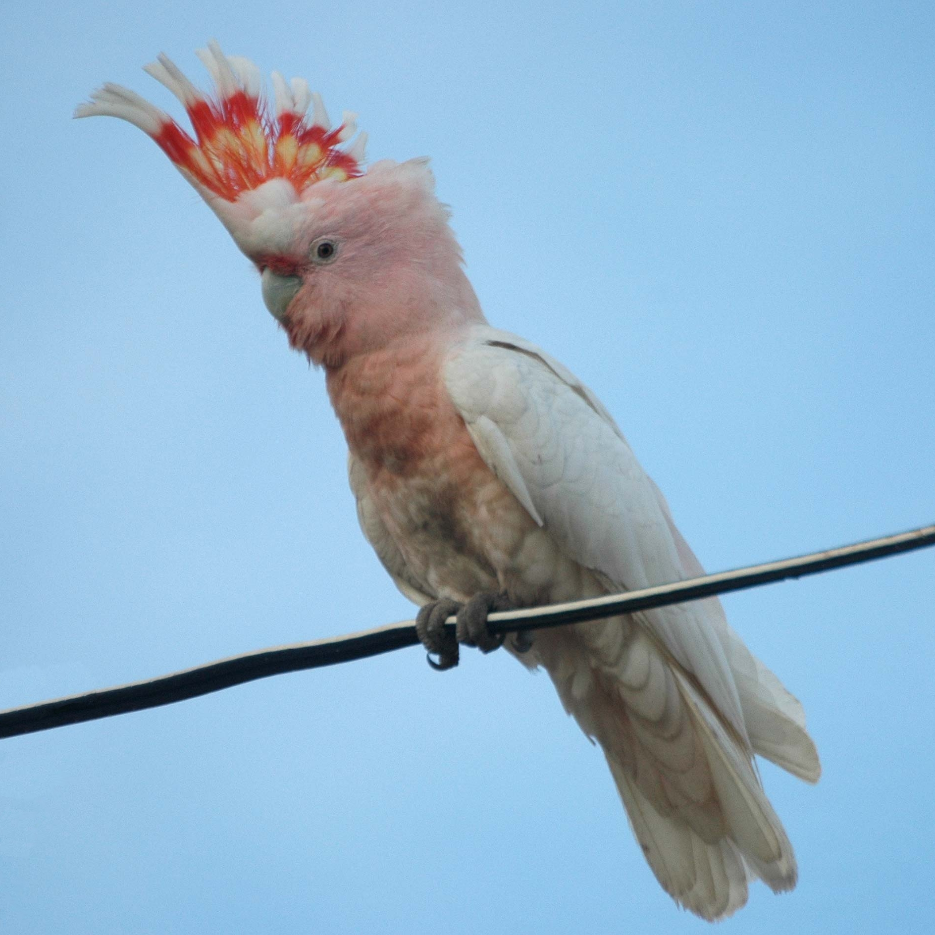 Leadbeater's Cockatoo, also known as Major Mitchell's Cockatoo or the Pink Cockatoo, at Bowra, SW Queensland, Australia.